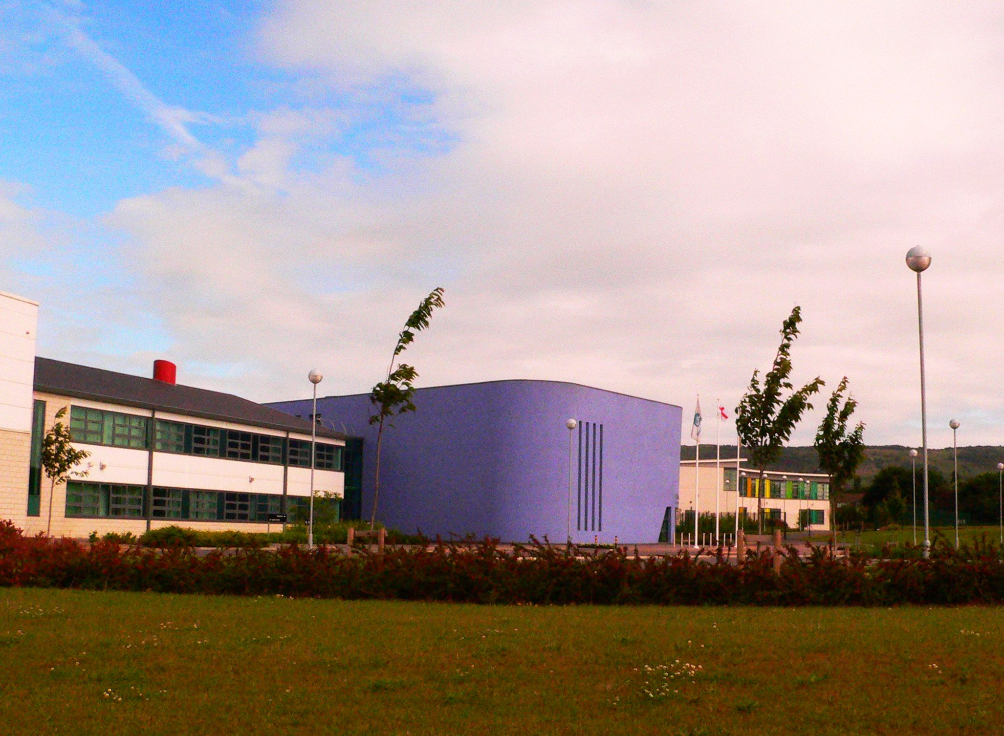 Gilbrook College, in 2010, occupied a 'Building Schools For The Future' building.